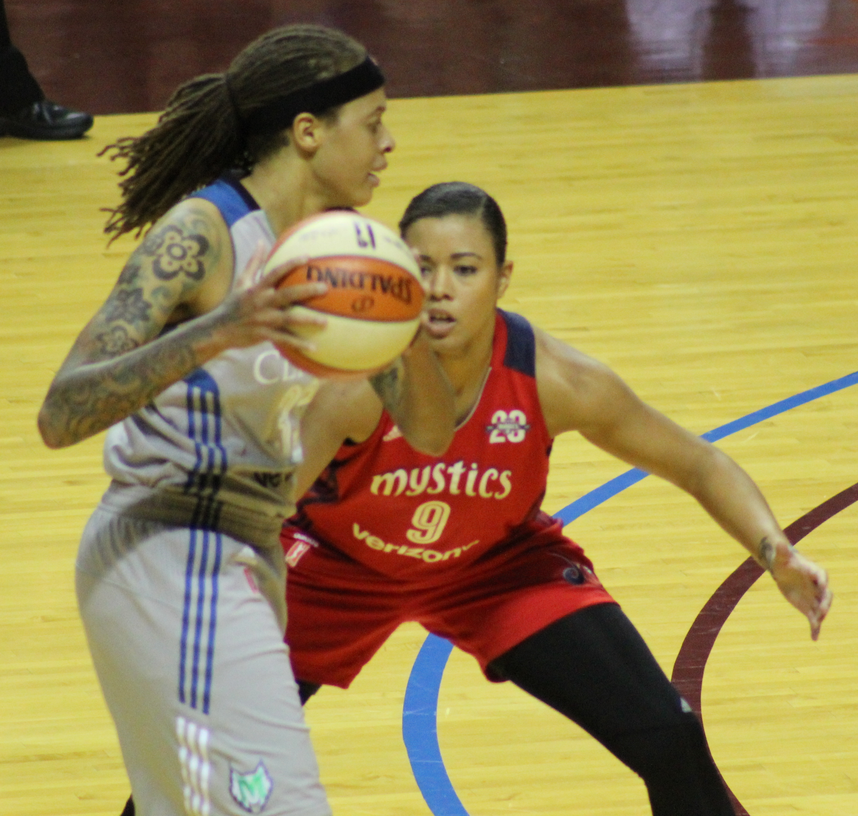 Seimone Augustus of the Minnesota Lynx (left) and Natasha Cloud of the Washington Mystics